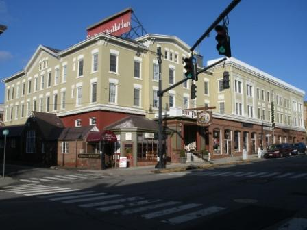 Yankee Pedlar Inn, also known as Conley Inn, in Torrington, Connecticut